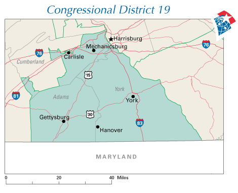 Cropped from